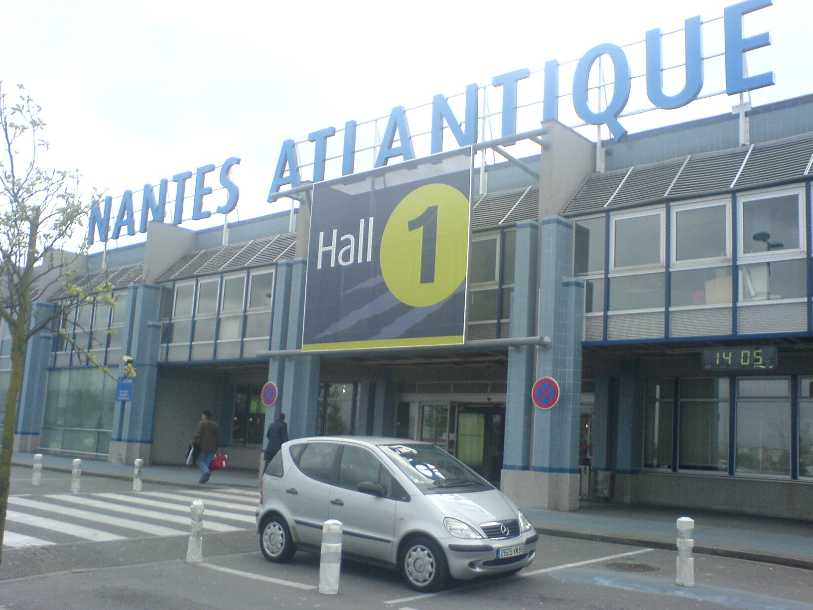 Nantes Atlantique Airport